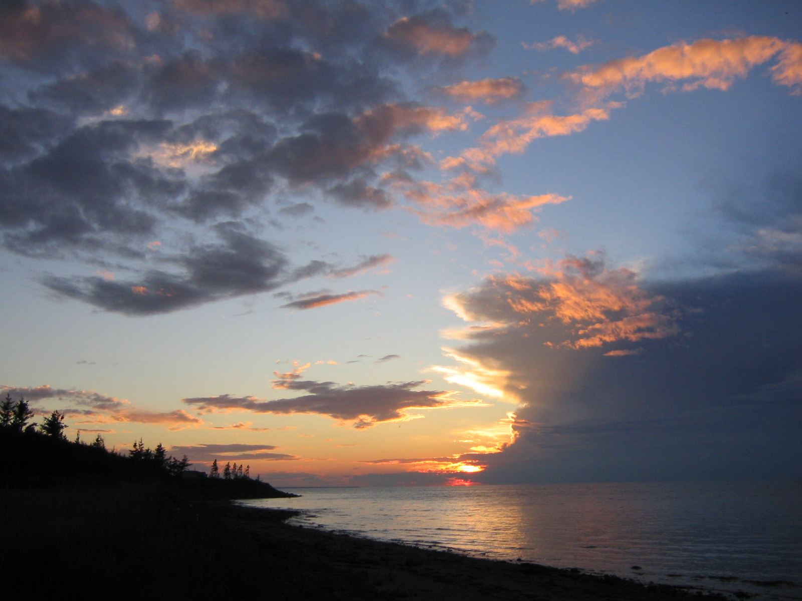 Sunset at Nova Scotia